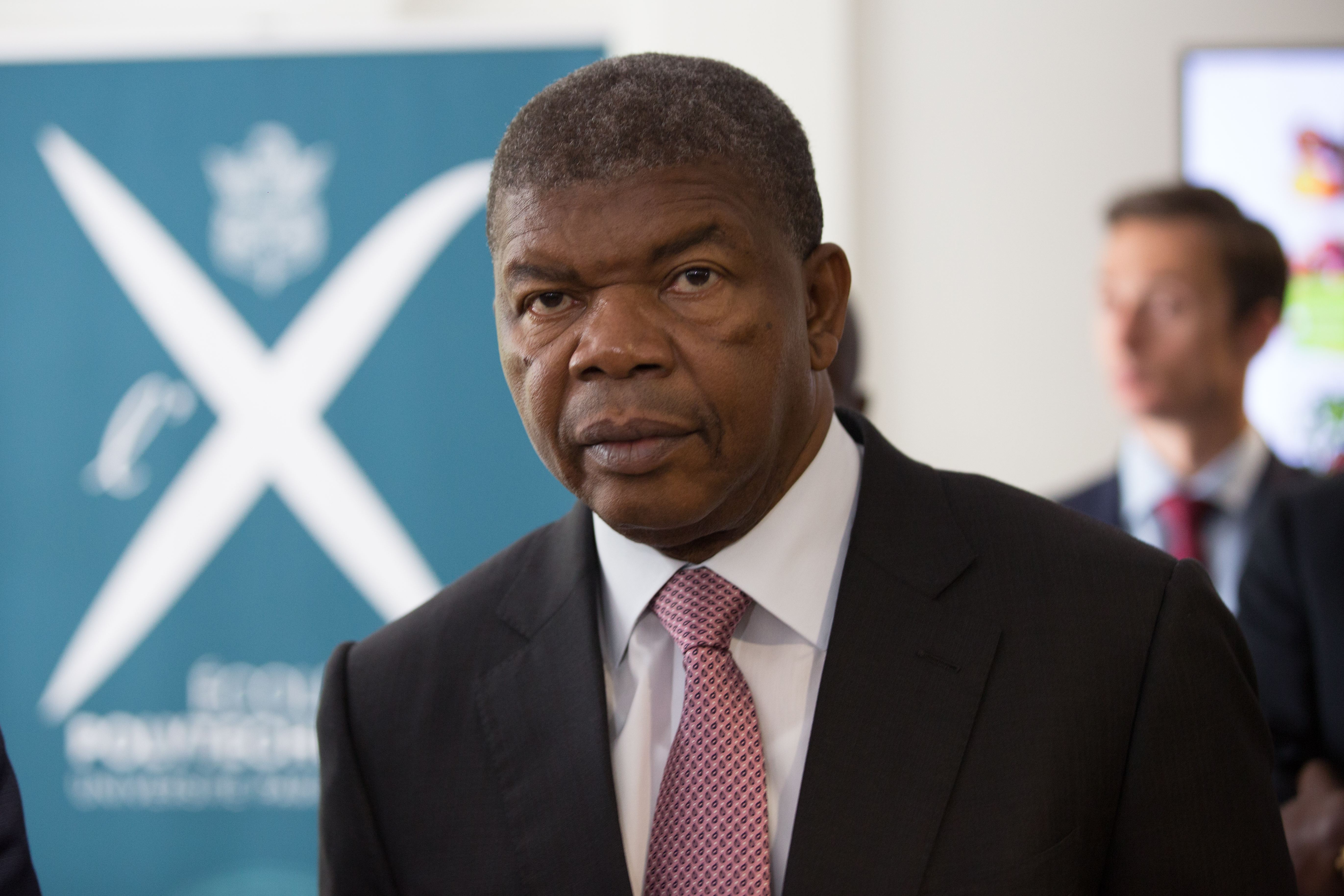 Visit of João Lourenço, President of the Republic of Angola, at the École Polytechnique in France on 28 May 2018